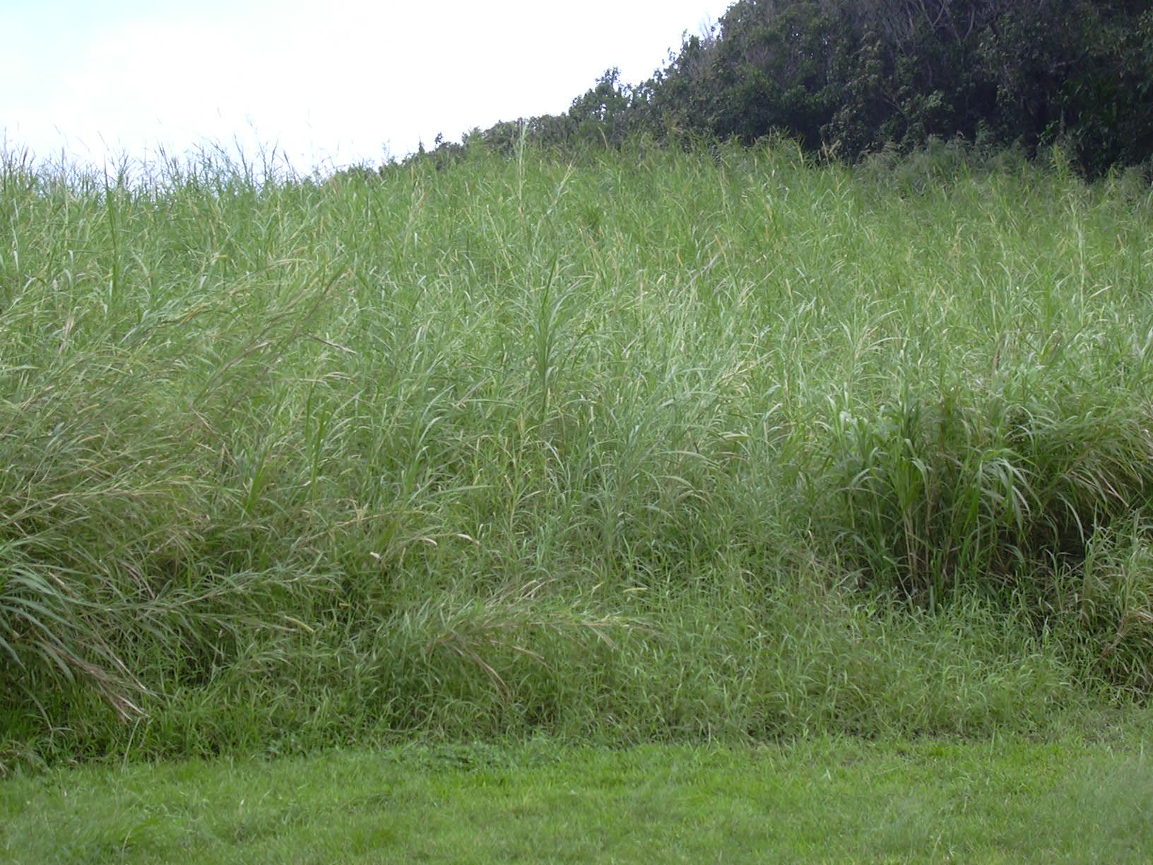 Pennisetum purpureum (habit). Location: Maui, Kipahulu